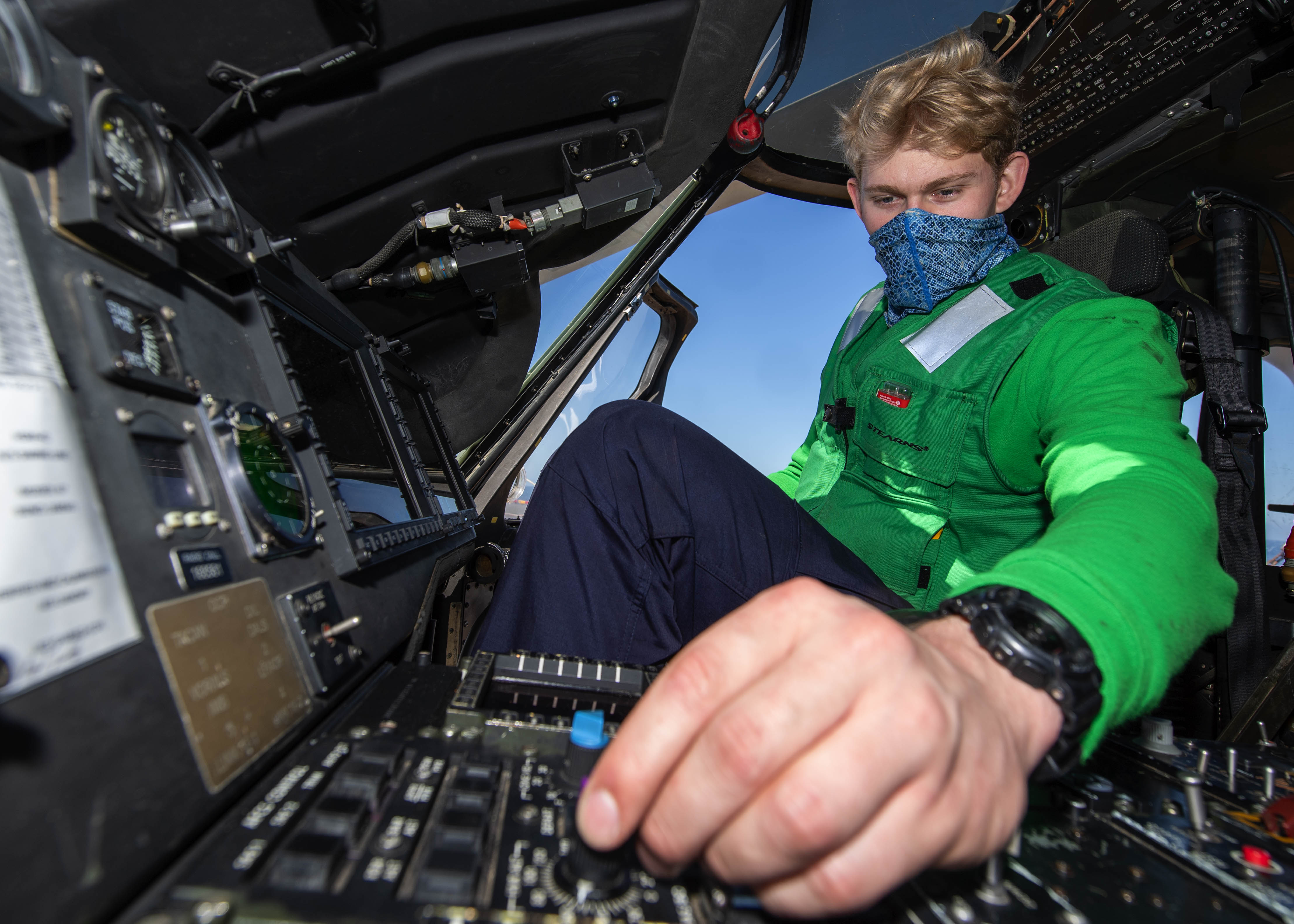 200514-N-SH168-1096 PACIFIC OCEAN (May 14, 2020) Aviation Electronics Technician 2nd Class James Cancilla performs maintenance in the cockpit of an MH-60S Sea Hawk helicopter, attached to Helicopter Sea Combat Squadron (HSC) 21s, on the flight deck of the Wasp-class amphibious assault ship USS Essex (LHD 2). Essex is underway in the eastern Pacific Ocean conducting routine maritime operations. (U.S. Navy photo by Mass Communication Specialist 2nd Class John Luke McGovern/RELEASED)